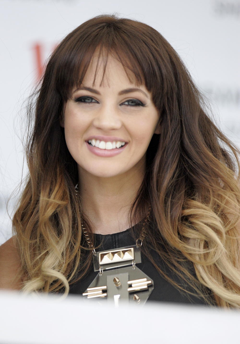 Samantha Jade and The Collective perform live at Westfield, Miranda, Sydney